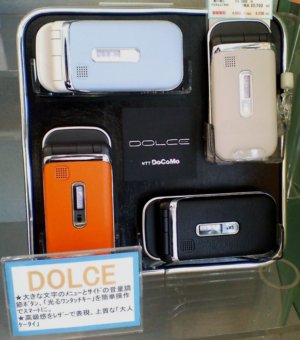 DOLCE (FOMA SH851i) at a DoCoMo shop in Okazaki, Aichi. It is the first FOMA which adopted artificial leather for its exterior. Thanks to the high technology, the texture of real leather was re-created. Because of its elegance, the phone is also called "the phone for adults" DOLCE(ドルチェ、FOMA SH851i)、愛知県岡崎市内のドコモショップにて。 DOLCEは、FOMA初の人工皮革を採用したケータイである。ハイテク技術により、本物の革の質感が再現された。 その上質さゆえに、DOLCEには「大人ケータイ」の愛称もある。